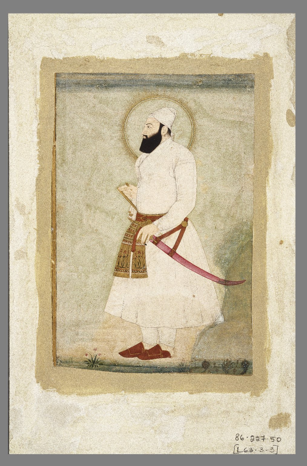 This portrait depicts Abu\'l Hasan, the last sultan of the Qutb-Shahi dynasty of Golconda, a kingdom in the Deccan (central southern India) that was much celebrated for its refusal to bow to the Mughal emperors. The sultan is shown with a radiant gold nimbus, a convention of Deccani portraits of rulers. The Mughals finally conquered Golconda after a long siege, and Abu\'l Hasan spent the last 17 years of his life in confinement. It is likely that this portrait was created after his death; it clearly celebrates him as a great ruler rather than as a defeated captive. This painting has lost the decorative margin papers that once framed it, leaving the blank edges of the page visible.